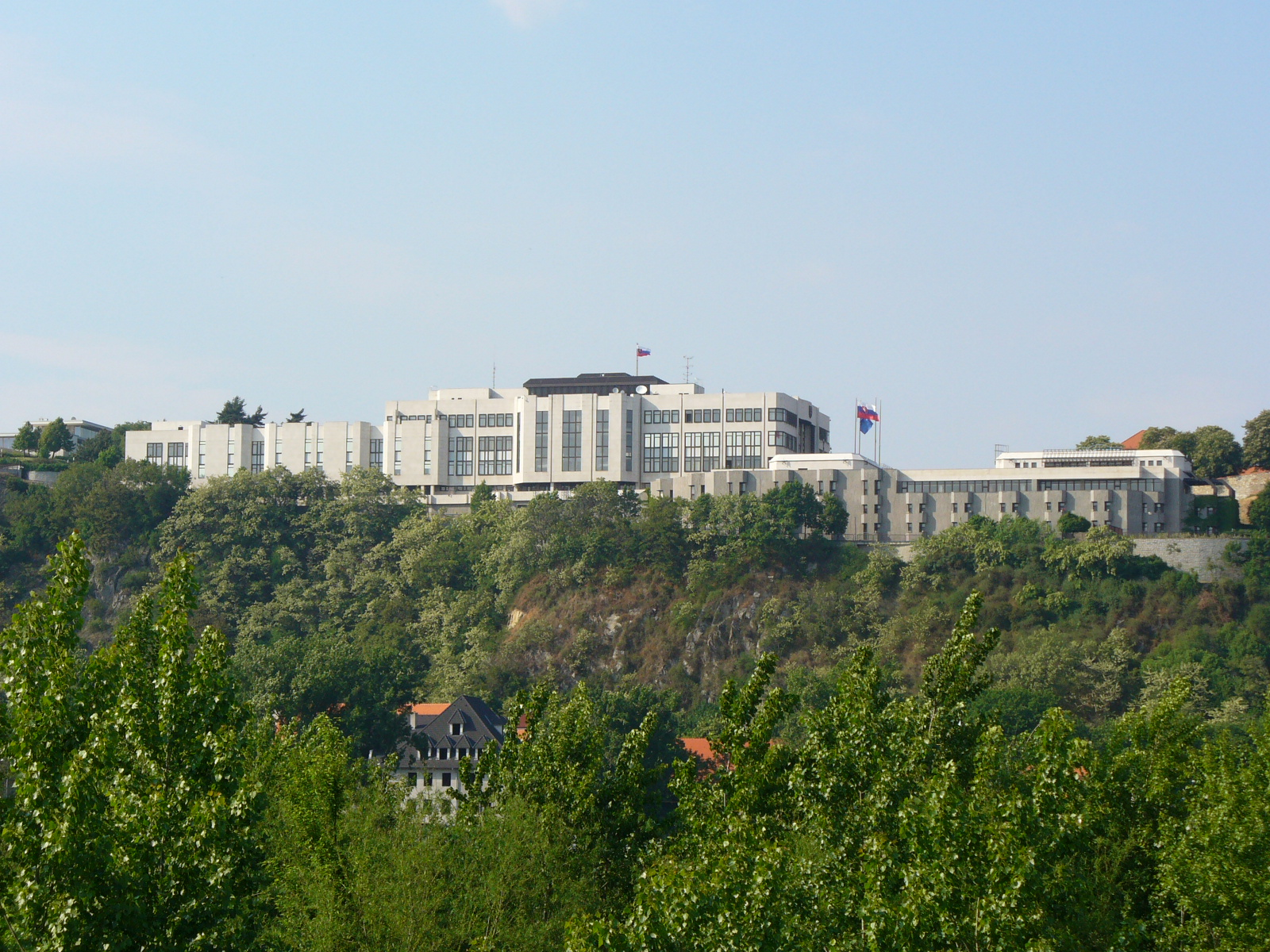 National Council of the Slovak Republic 01